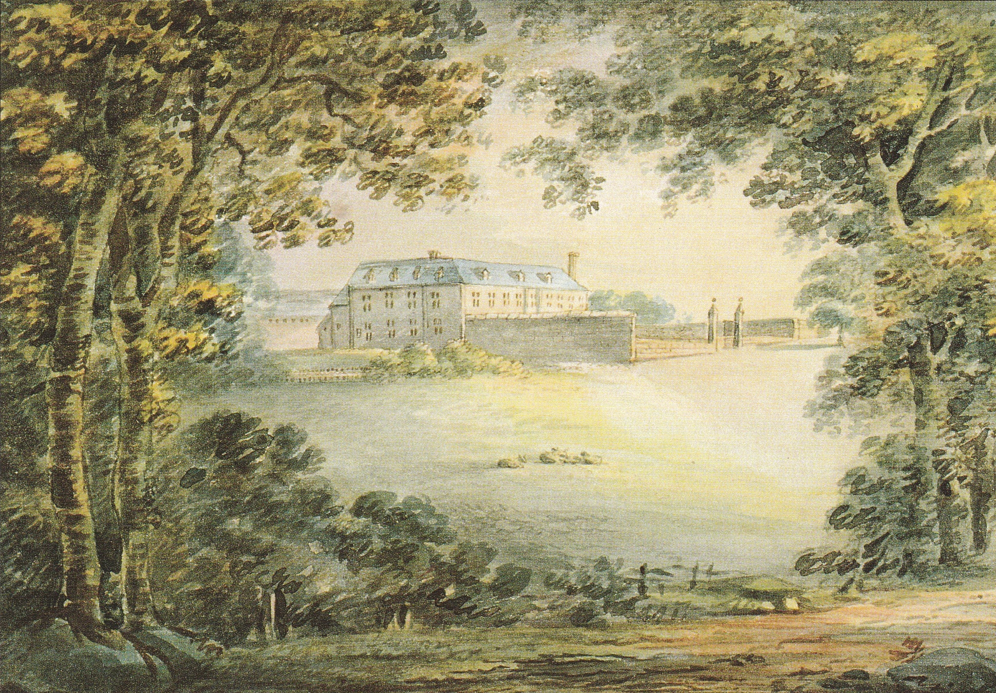 "Whiteway, seat of the Yardes", watercolour by Reverend John Swete (died 1821) dated 10 July 1795 of Whiteway in the parish of Kingsteignton, Devon. Devon Record Office: DRO 564M/F8/119. Swete's mother was a member of the Yarde family of Whiteway. A Domesday Book manor, today a farmhouse known as Whiteway Barton. Not to be confused with Whiteway House in the parish of Chudleigh, 4 3/4 miles to the north, a former seat of the Parker family of Saltram.